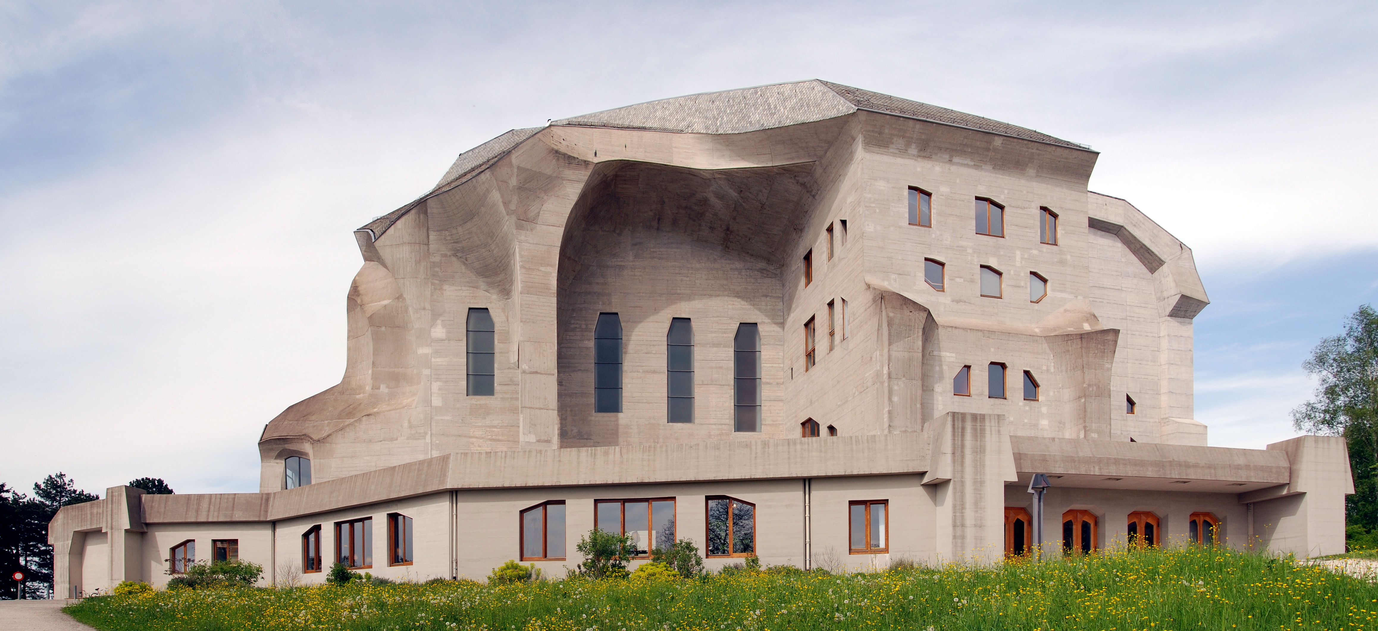 Goetheanum from south